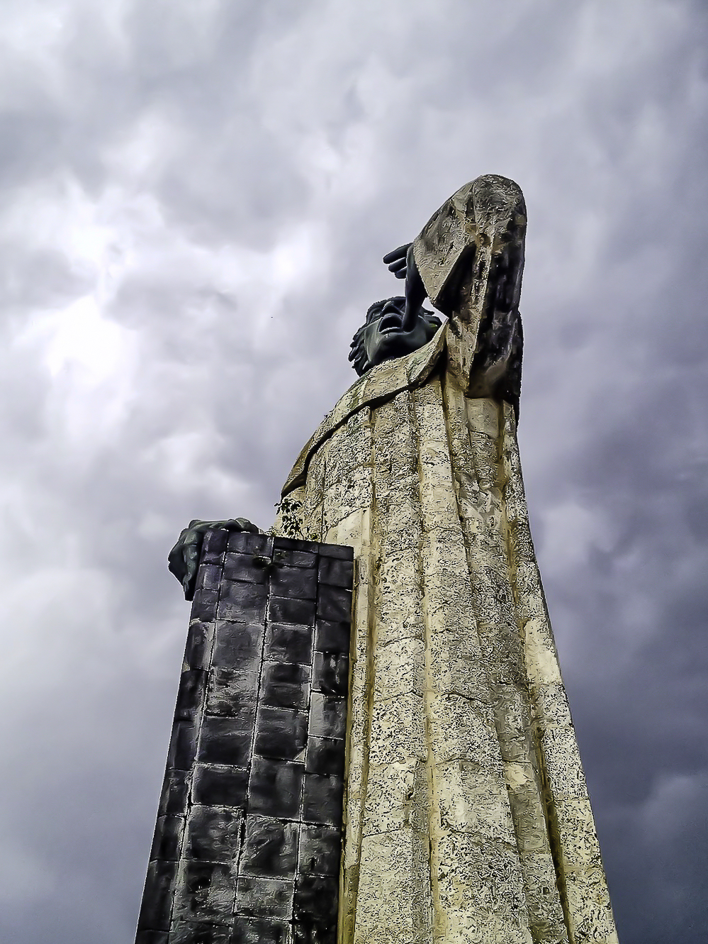 This huge statue is the most important work of art representing Antonio de Montesinos. Montesinos is widely recognized by scholars as the first Human Rights leader in the Americas ("Protector of the American Indigenous People") and for sparking a crisis that created the first set of international laws concerning universal humanity. The statue portrays him as if shouting the words that made him famous: "Tell me by what right of justice do you hold these Indians in such a cruel and horrible servitude?" This statement was part of two homilies he gave in the colony of Santo Domingo on December 21, and 28, 1511, to a congregation full of encomenderos and conquistadors who were responsible for the massacre of millions of indigenous people of the Caribbean. Bartolomé de las Casas, another well-known Human Rights activist, was present there, and it was this sermon that prodded him to a career as a defender of the American Indigenous People. The statue is about 50 foot tall (15 meters) and the dark skies may represent the dark times and the abuses he was denouncing. Celebrated Mexican sculptor Antonio Castellanos Basich designed it. The Mexican government donated it to the Dominican People in 1982, and it stands today near to the site wherein 1511 the fearless Montesinos called out evil by its name two earth-shattering speeches. Montesinos later moved to other regions of the Americas (even to Virginia) on his Human Rights crusade. This statue is also Castellanos most recognized work.